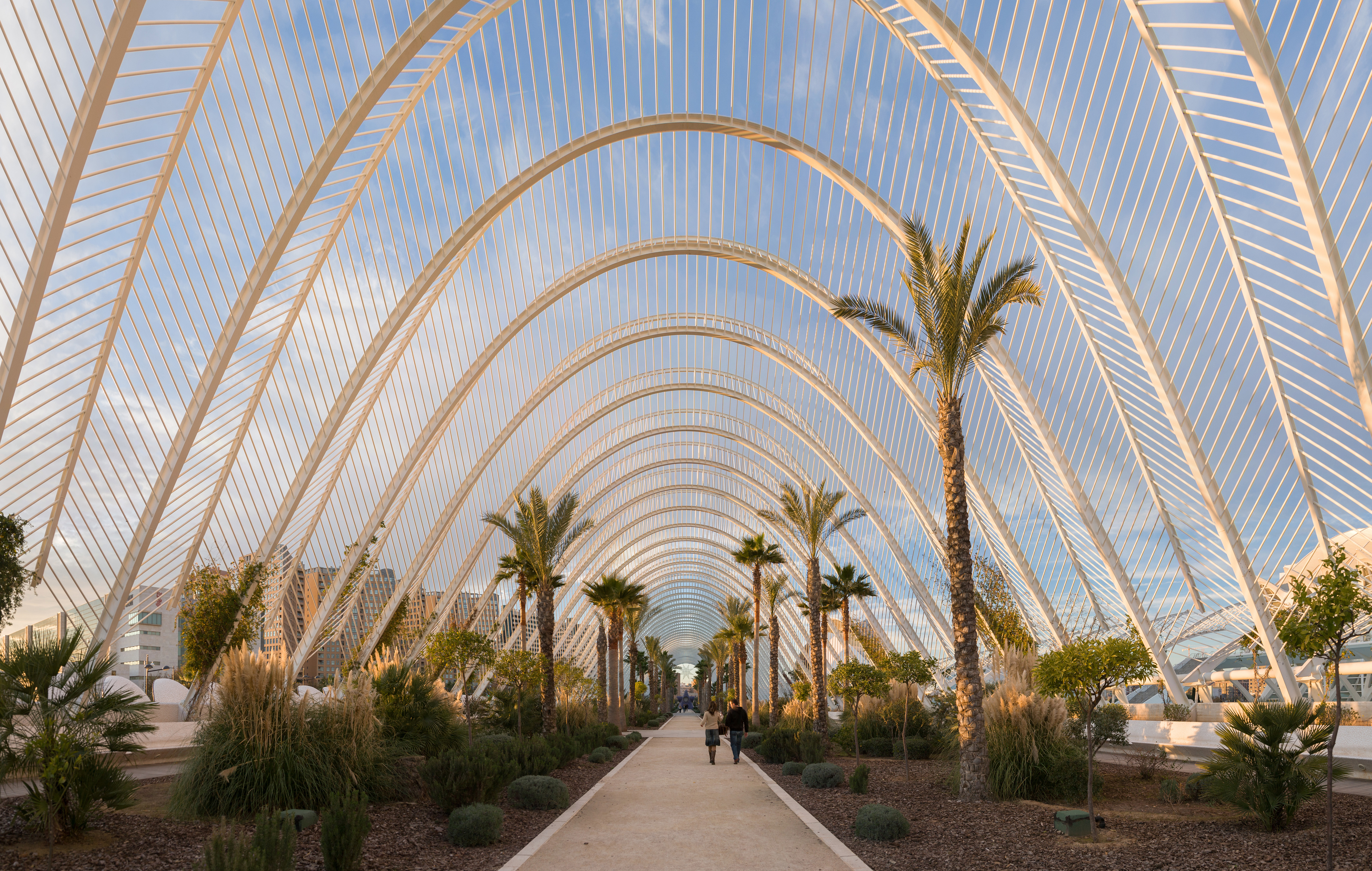 An ultrawide angle panoramic view along the inside of L'Umbracle, designed by renowned Spanish architect Santiago Calatrava, in the City of Arts and Sciences in Valencia, Spain.